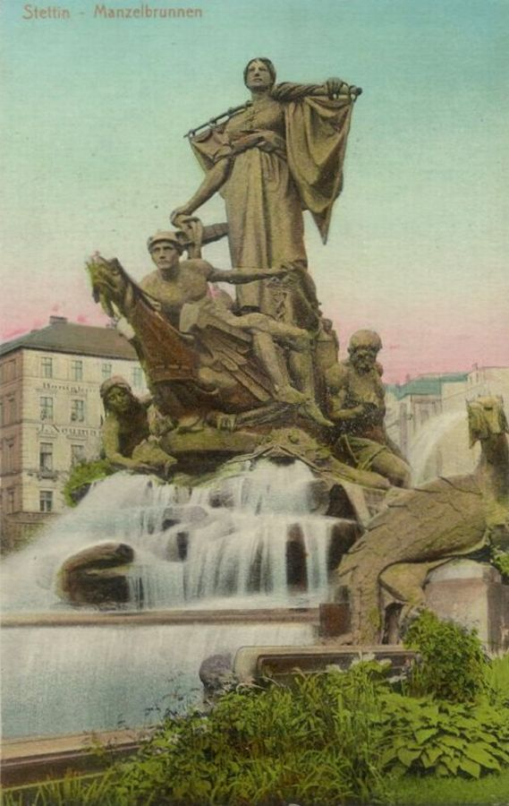 Sedina Monument (Manzelbrunnen) in Stettin; 1899-1913, old postcard